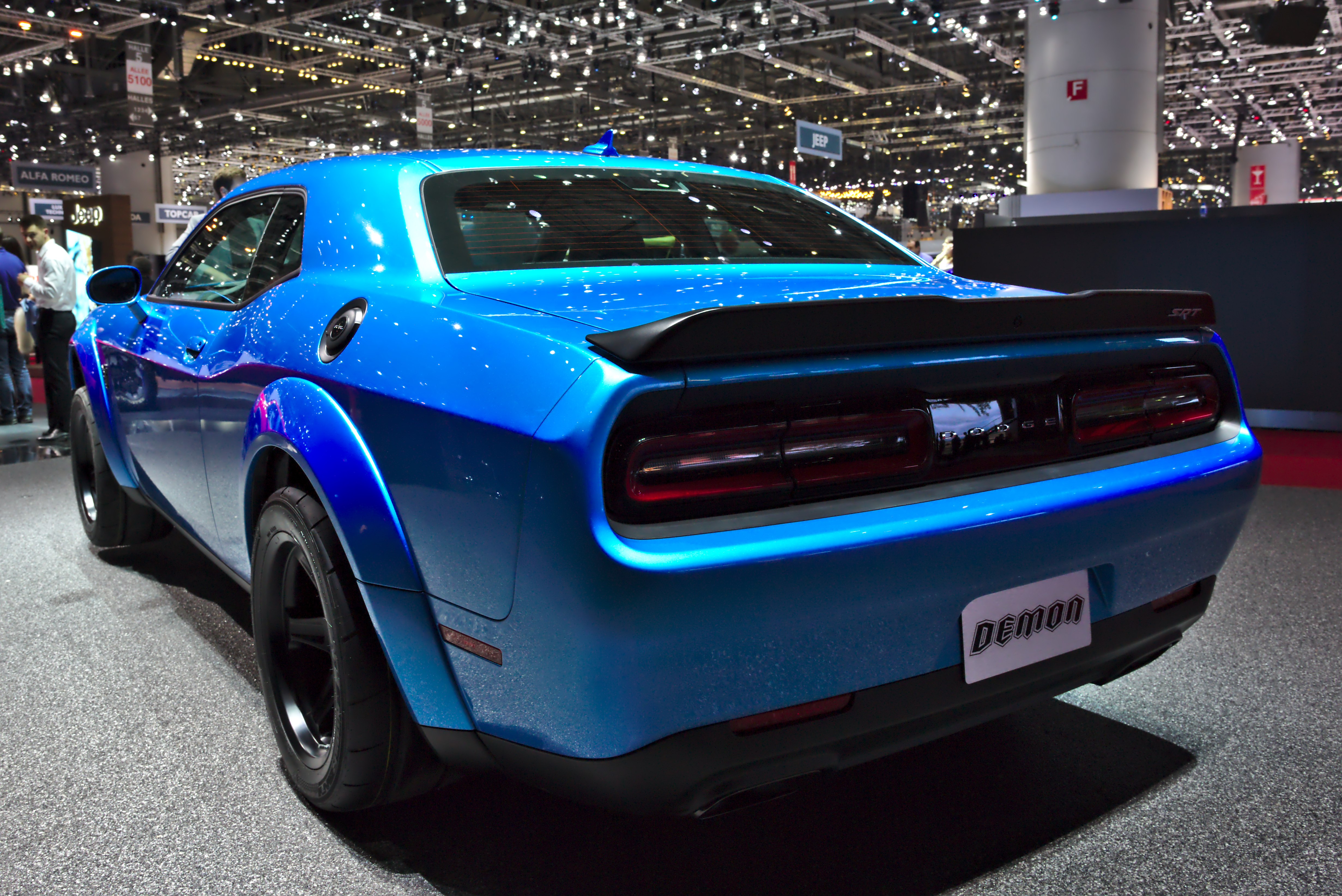 Dodge Challenger Demon at Geneva Motorshow 2018